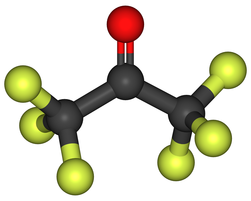 Ball-and-stick model of hexafluoroacetone (hexafluoropropanone). Created using Accelrys DS Visualizer Pro 1.7 and GIMP.